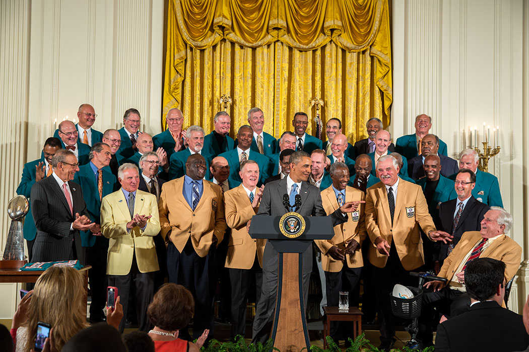 President Barack Obama delivers remarks during a ceremony honoring the 1972 Super Bowl Champion Miami Dolphins in the East Room of the White House, Aug. 20, 2013. (Official White House Photo) Note: Dolphins owner Stephen Ross is also pictured.